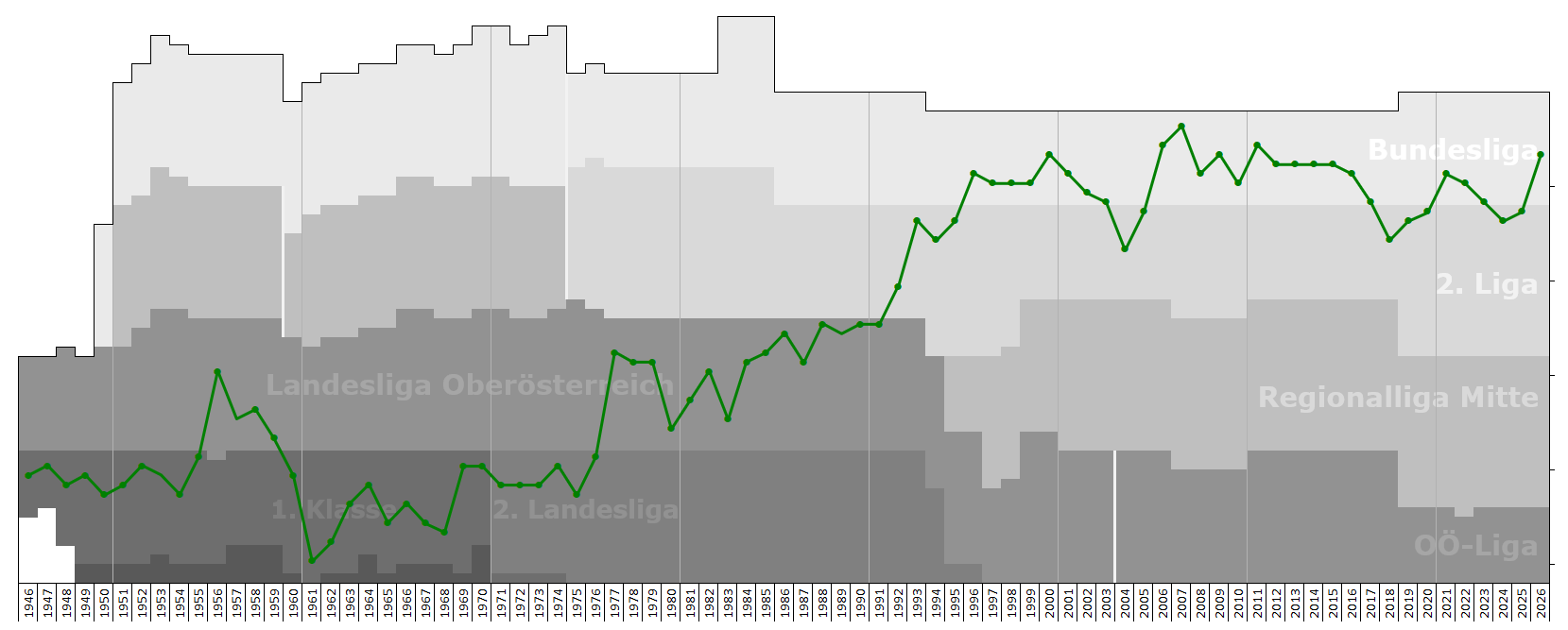 Chart of end-season table positions of SV Ried in the Austrian football league system. Data source: RSSSF, , regiowiki.at, ofv.at, wikipedia